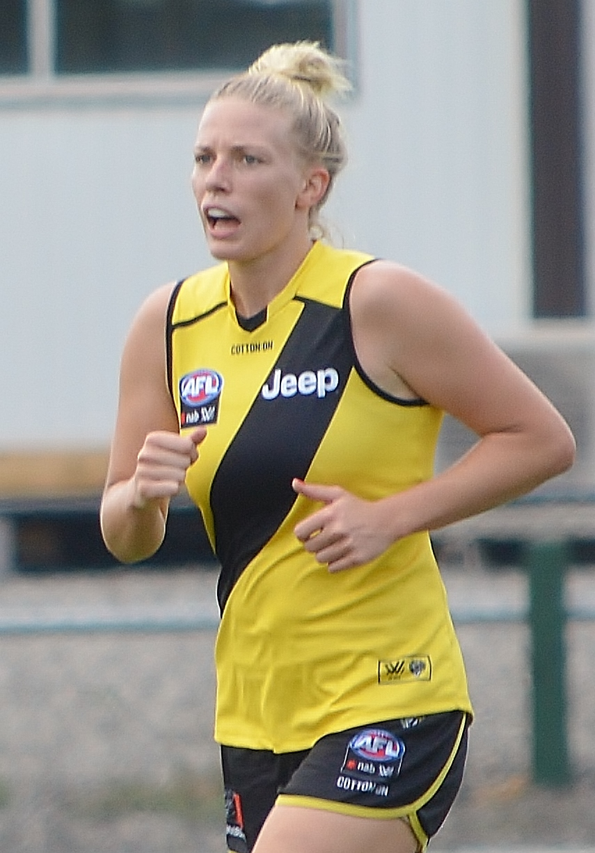 Christina Bernardi with Richmond during a pre-season AFL Women's match against West Coast at Punt Road Oval in January 2020.